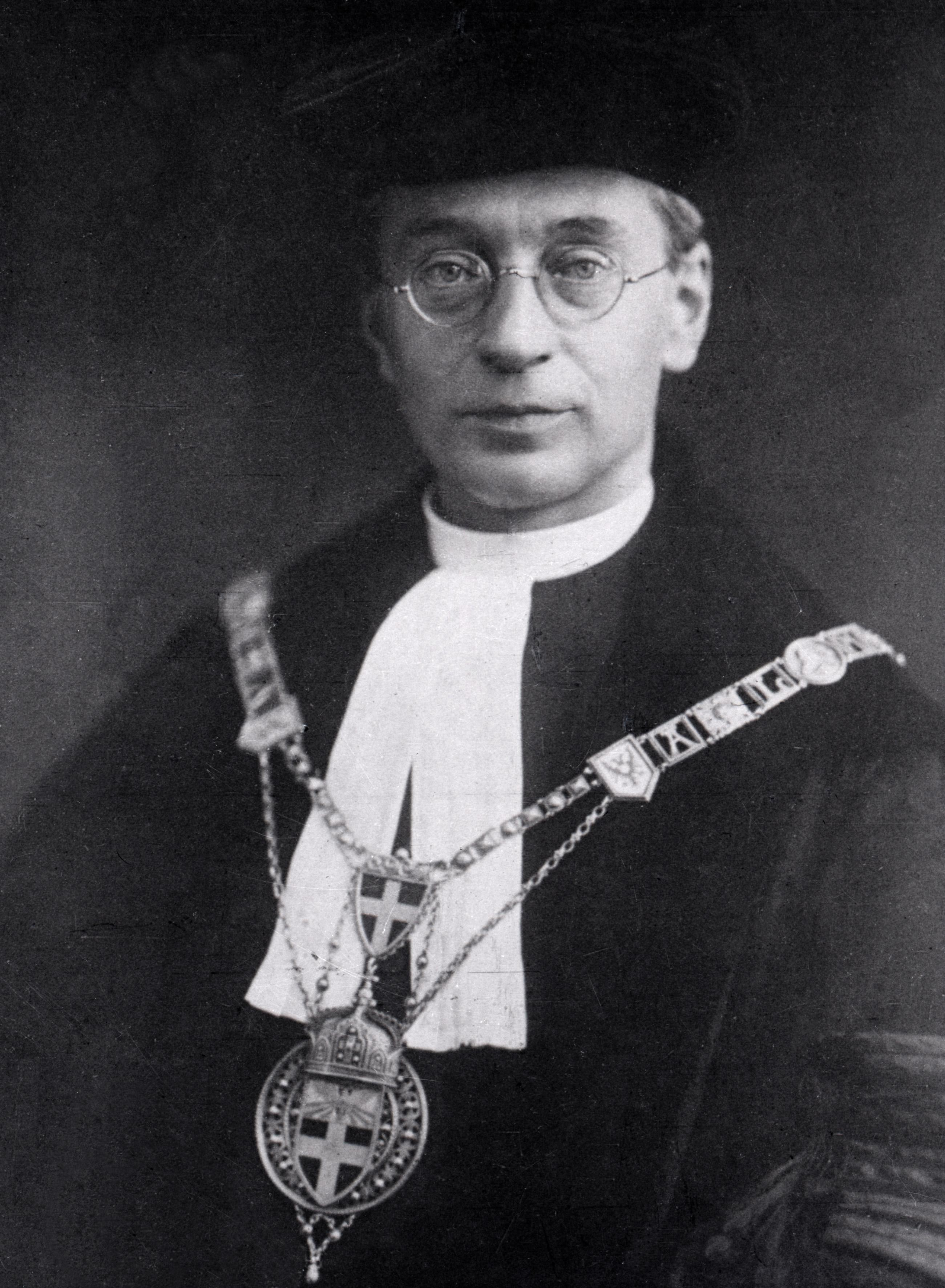 Dutch carmelite Titus Brandsma as rector magnificus of Catholic University Nijmegen, 1932.